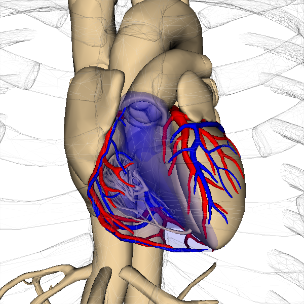 rib cage and eyeball.